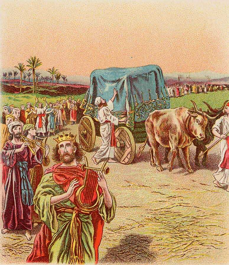 The Ark Brought to Jerusalem by David, as in 2 Samuel 6:1-12, illustration from a Bible card published by the Providence Lithograph Company